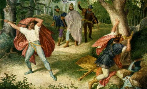 Siegfried's Death, by Julius Schnorr von Carolsfeld. Encaustic mural painting in the Nibelungen Halls of the Munich Residence.